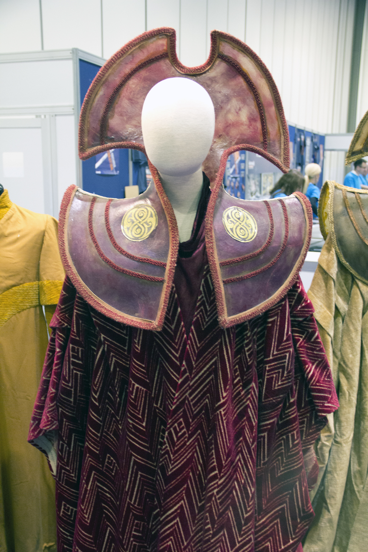 Doctor Who 50th Celebration Doctor Who Experience